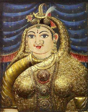 Devi Sujana was the wife of Ekoji, the fifth ruler of Tanjavur and the son of Ekoji, a direct descendant of Venkoji. This was a time od great disturbance for Tanjavur when the Muslim rulers of the deccan had started training their eyes on the prosperous city. One Chanda Sahib was responsible for overpowering the ruling king and looting most of the treasures. He also succeeded in getting rid of Ekoji without any resistance. At such a time, a woman had the courage to ascend the throne and take on the reins of administration into her hands. Sujana devi, Ekoji's widow was the only woman ever to have ruled over Tanjavur. But she proved no challenge to the cunning of Chanda Sahib and succumbed to the wicked ways of the conspirators.